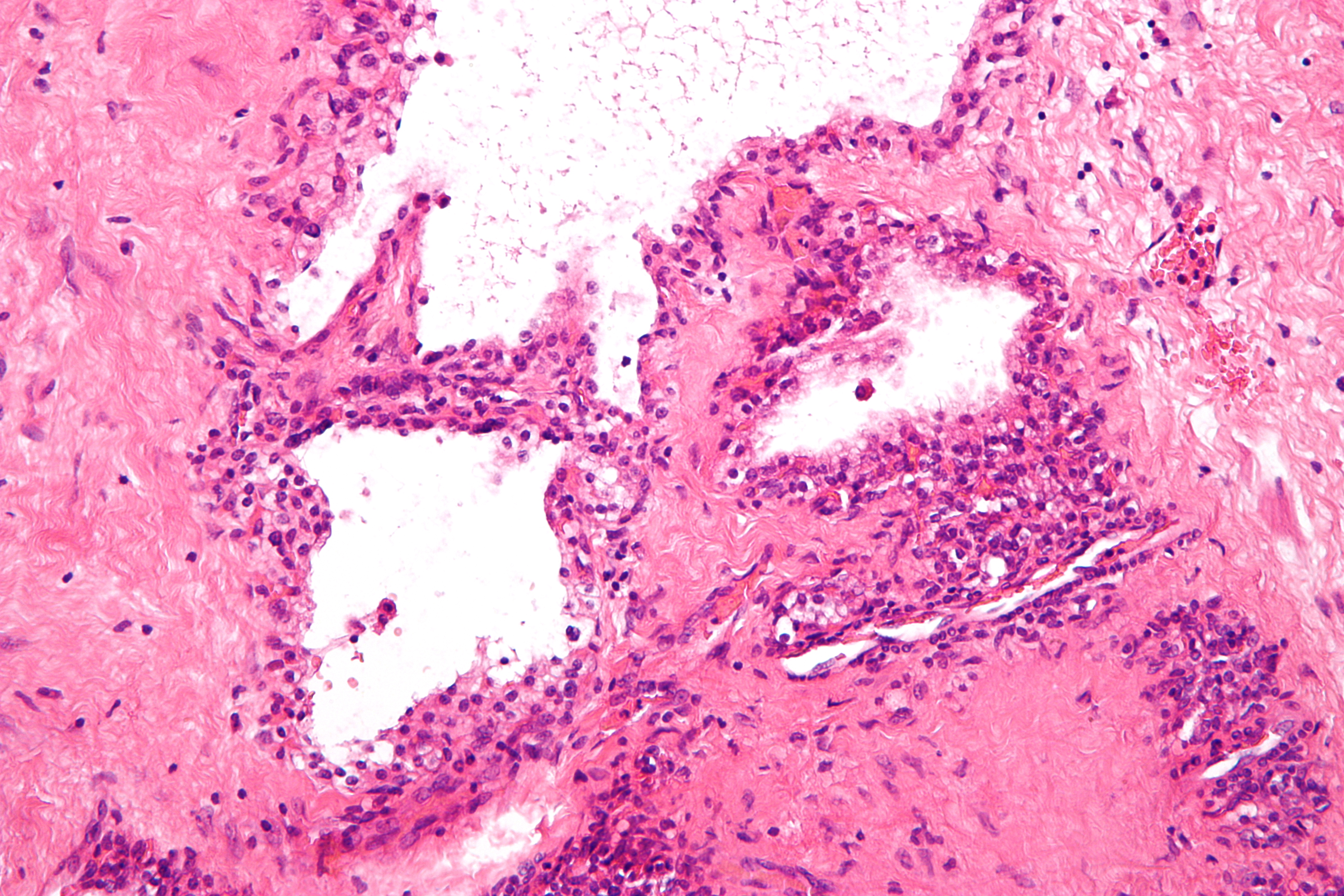 High magnification micrograph of a serous microcystic adenoma of the pancreas, also pancreatic serous microcystic adenoma, pancreatic serous cystadenoma and serous cystadenoma of the pancreas. H&Estain. These lesions may be a part of von Hippel-Lindau syndrome (hemangioblastomas, increased risk of clear cell renal cell carcinoma, port-wine stains, pheochromocytoma, eye problems, liver cysts, pancreatic cysts, kidney cysts). Features: Small cysts lined by ciliated cuboidal epithelium with cilia. Related images Low mag. Intermed. mag. Very high mag.